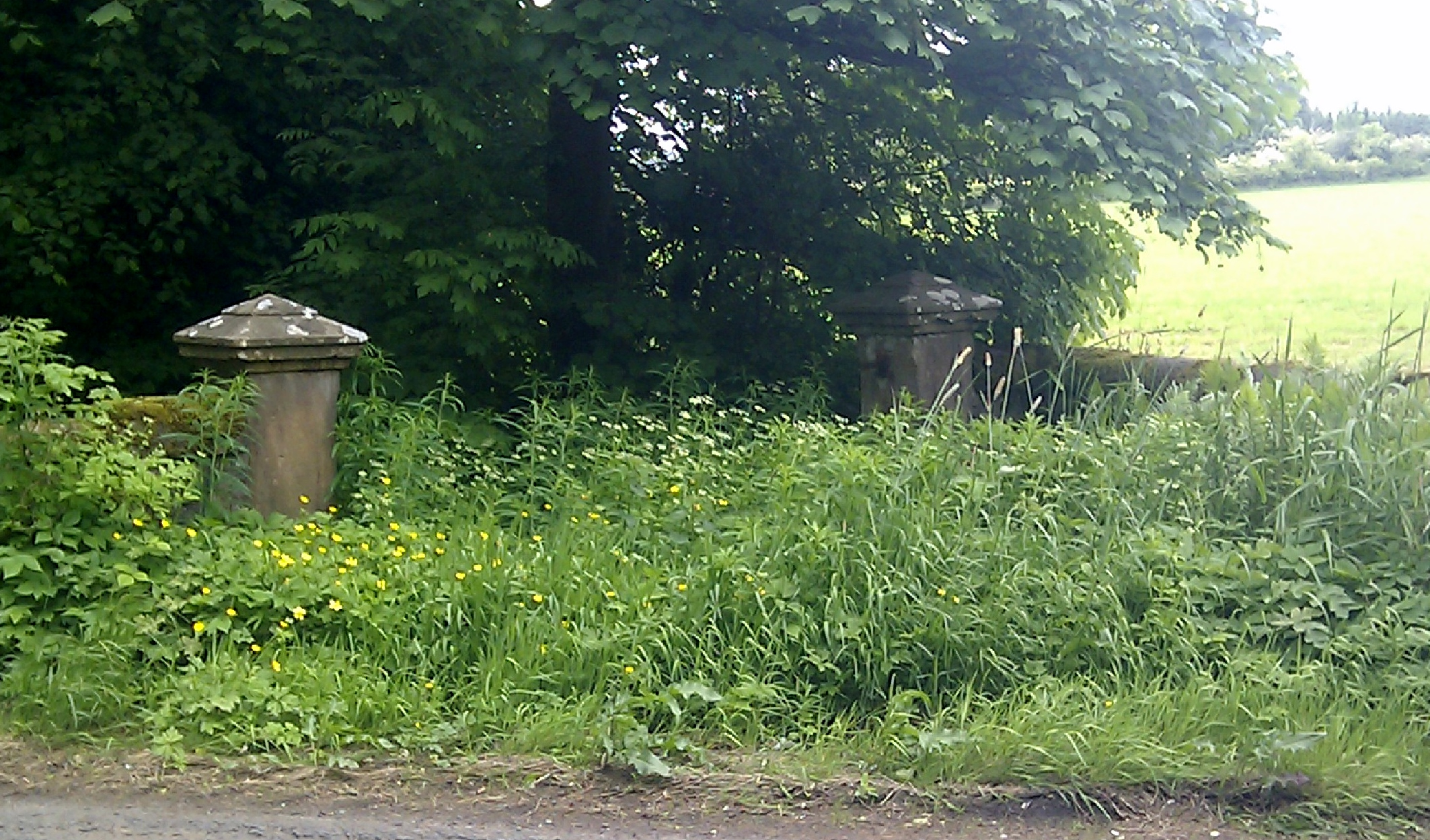 The gatepiers at the entrance to the old Marshalland House, Beith, North Ayrshire, Scotland.